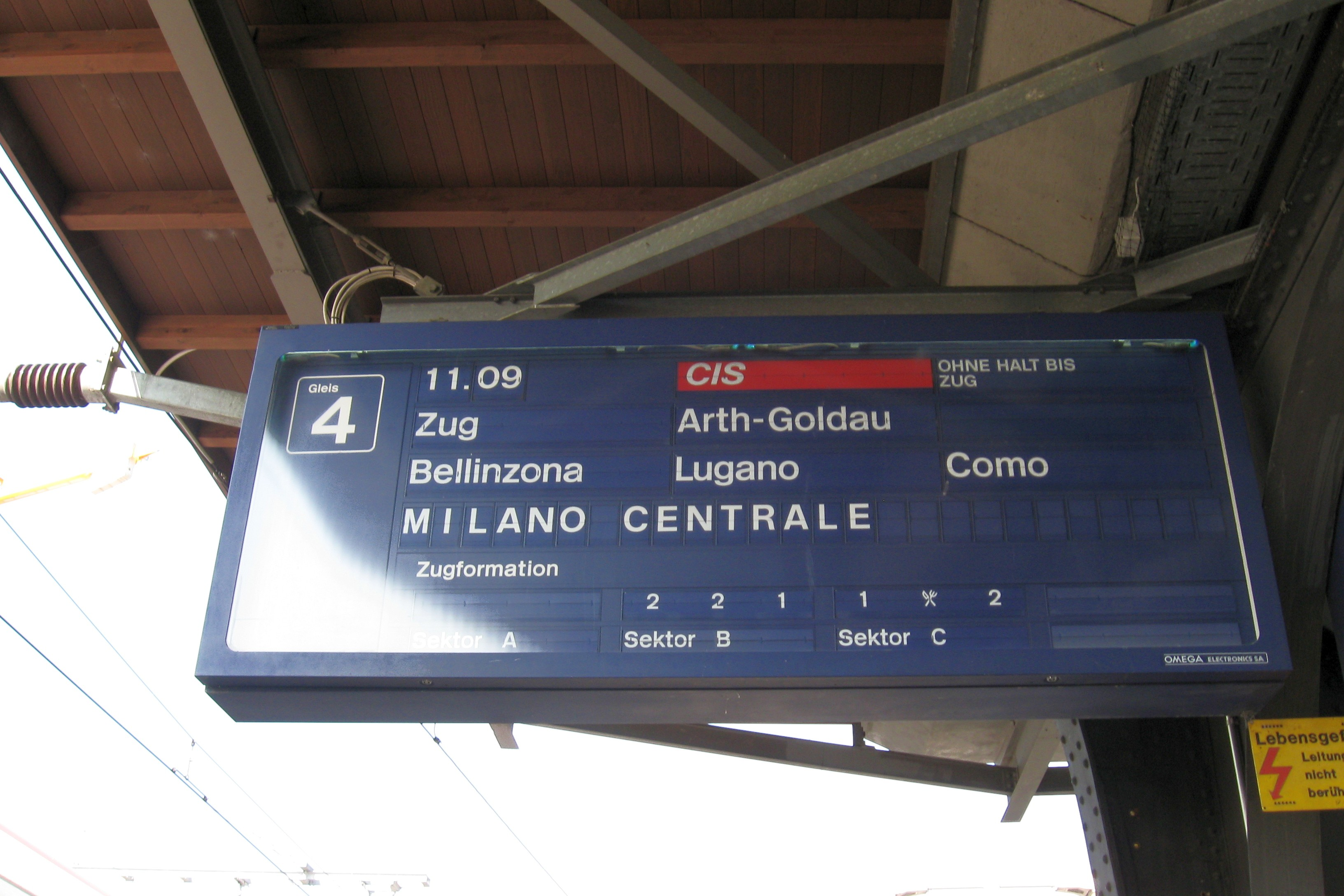 Split-flap display at Zürich Central Station